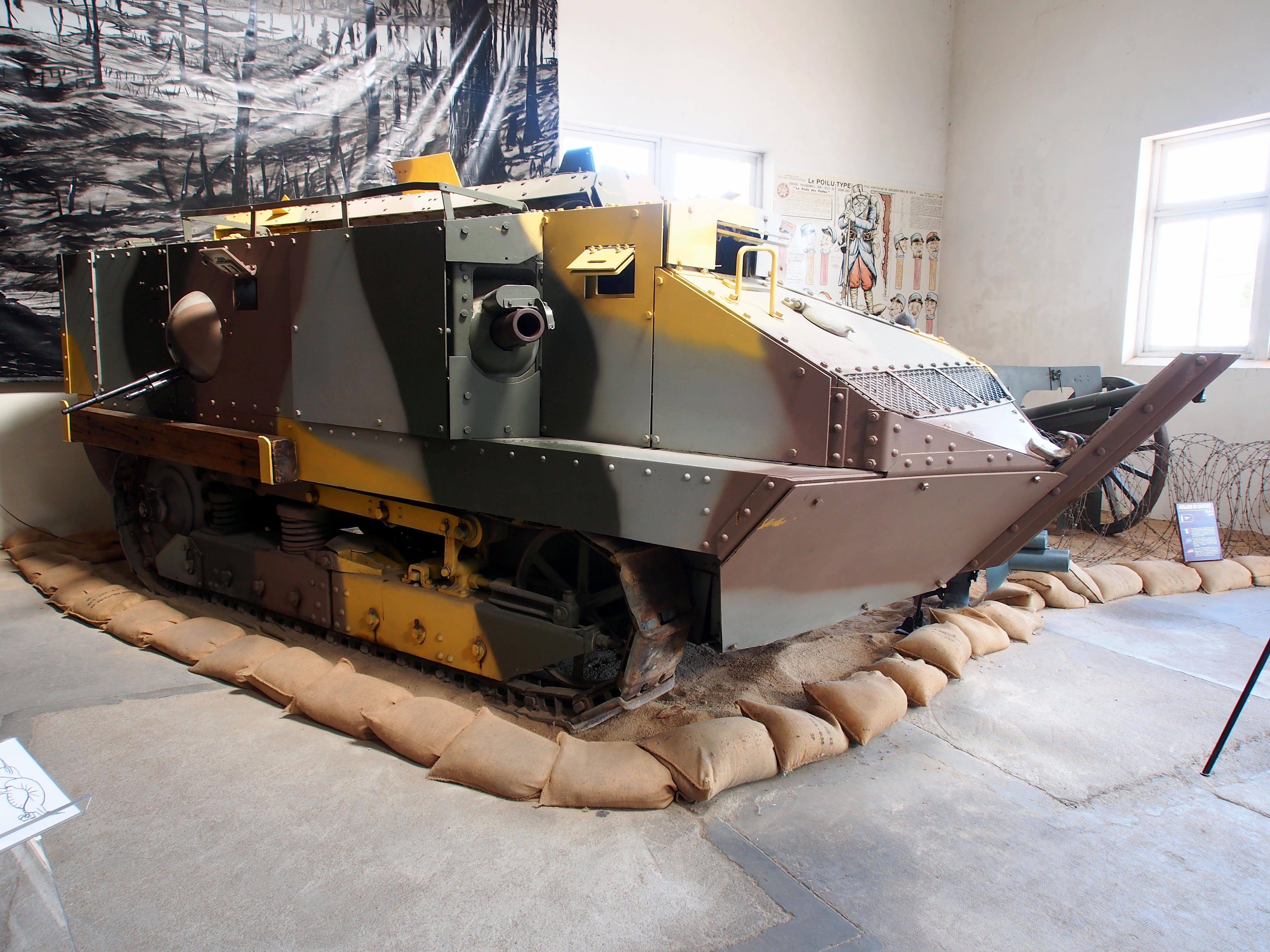 Photographed in the Musée des Blindés, France.